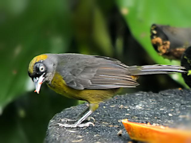 Dusky-faced Tanager near Puerto Viejo de Sarapiqui, Costa Rica